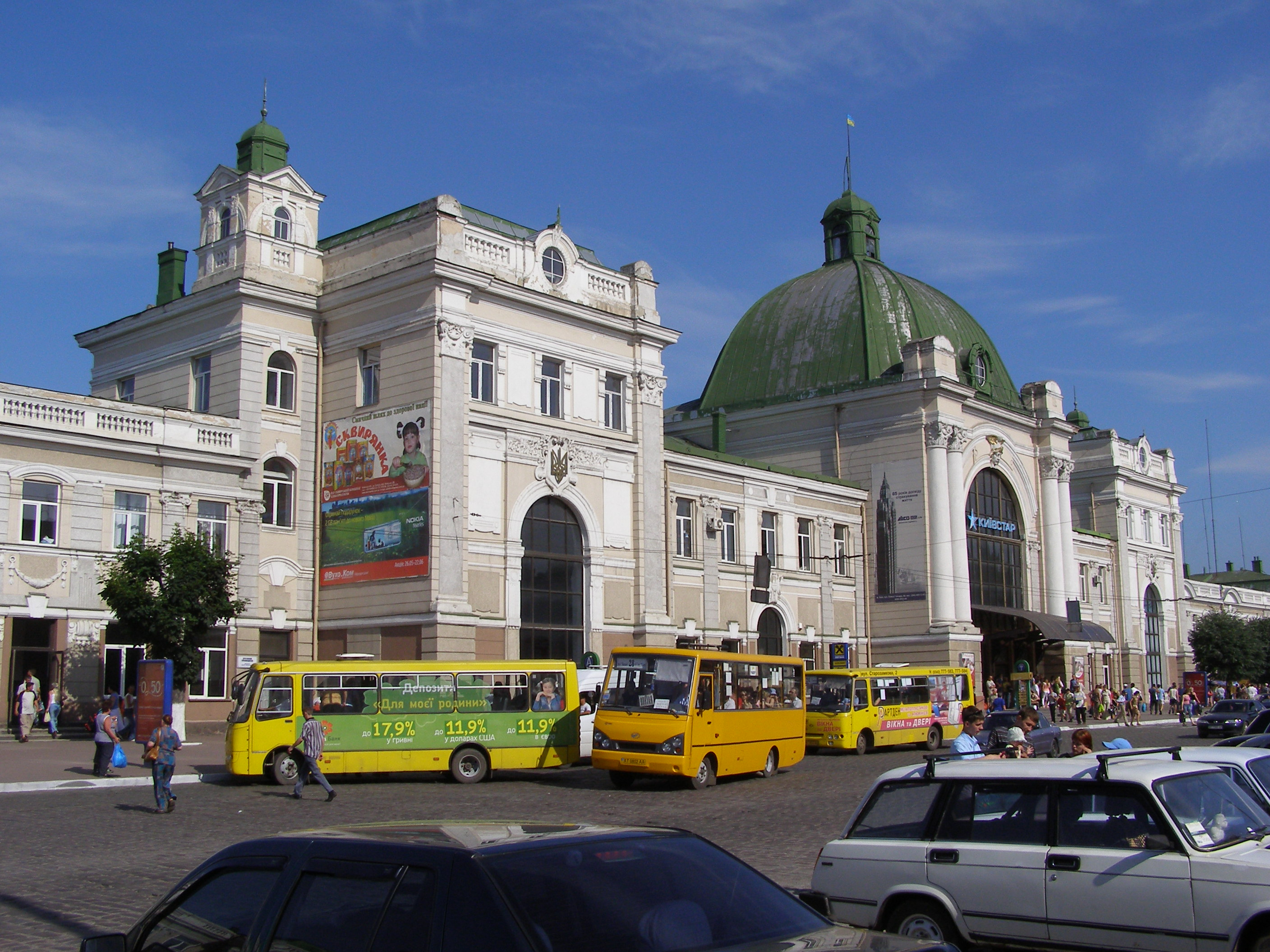 Railway station in Ivano-Frankivsk, western Ukraine